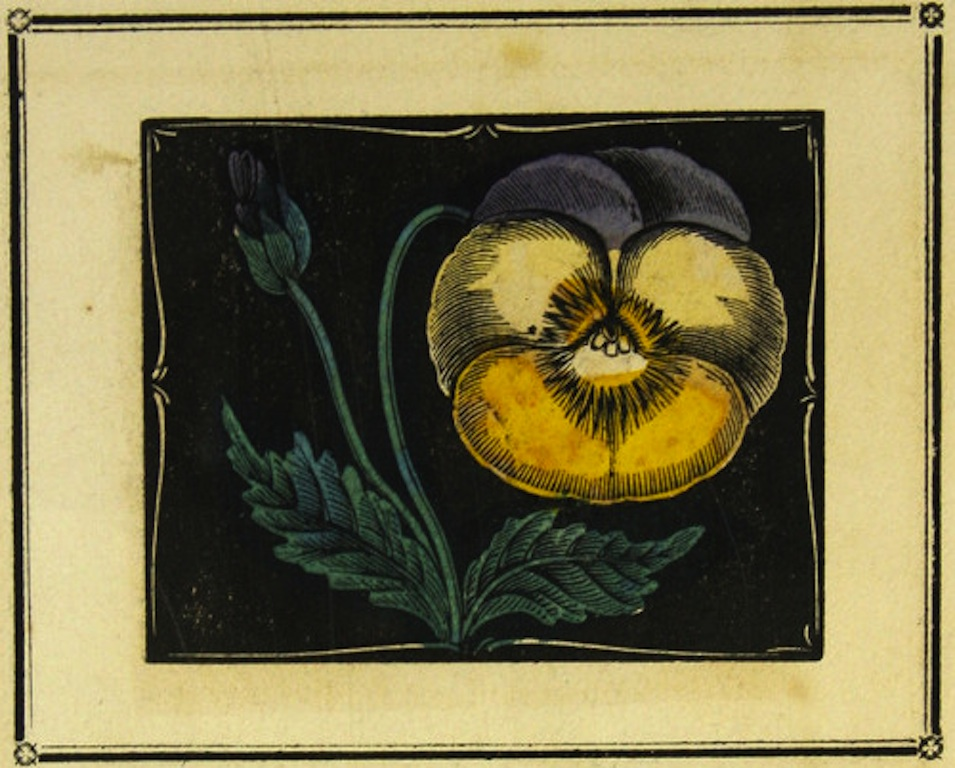 Handcolored woodcut from Dean & Son alphabet toy book